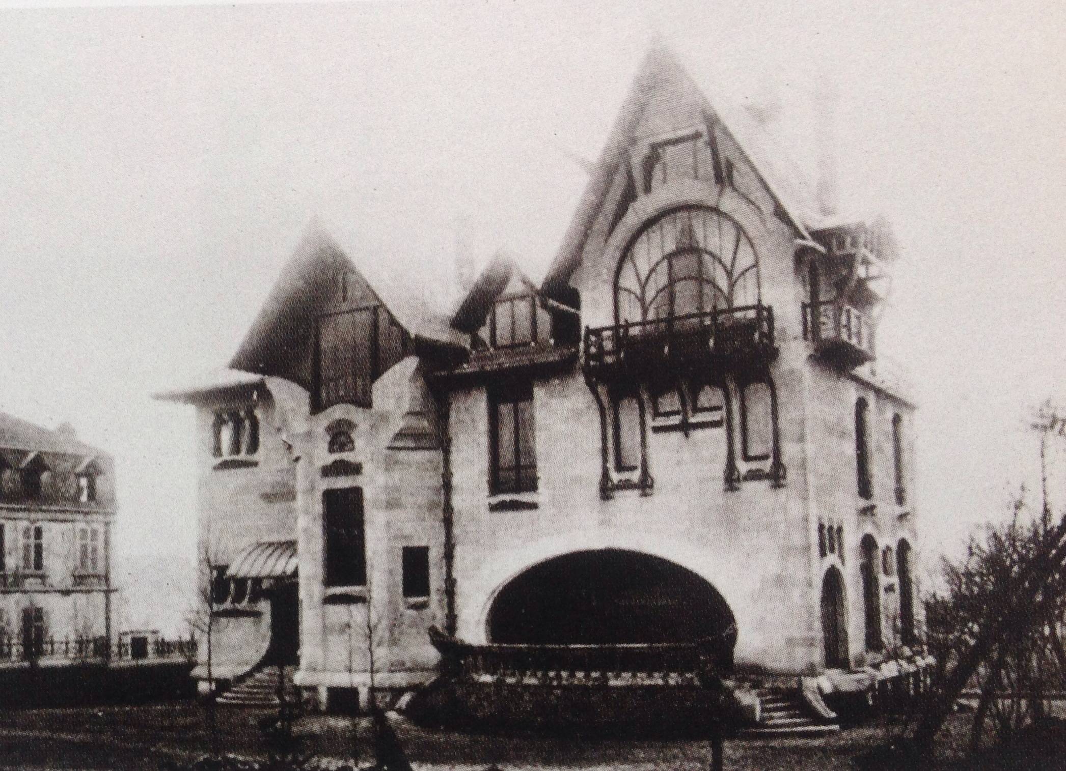 Image of the Villa Majorelle in 1904, from L'Immeublement art nouveau by F. Barbabas, Paris, 1904